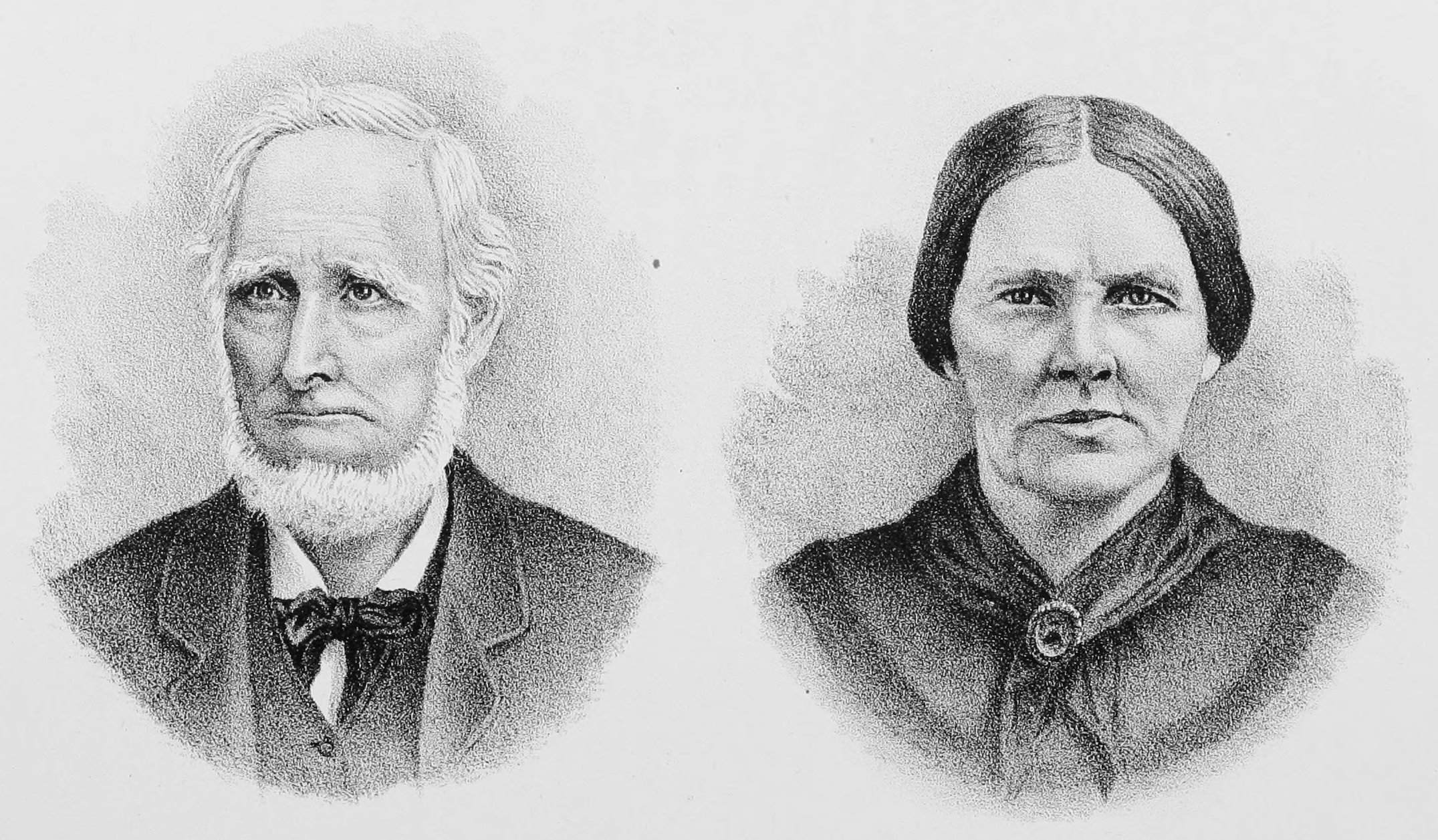 Oregon pioneers